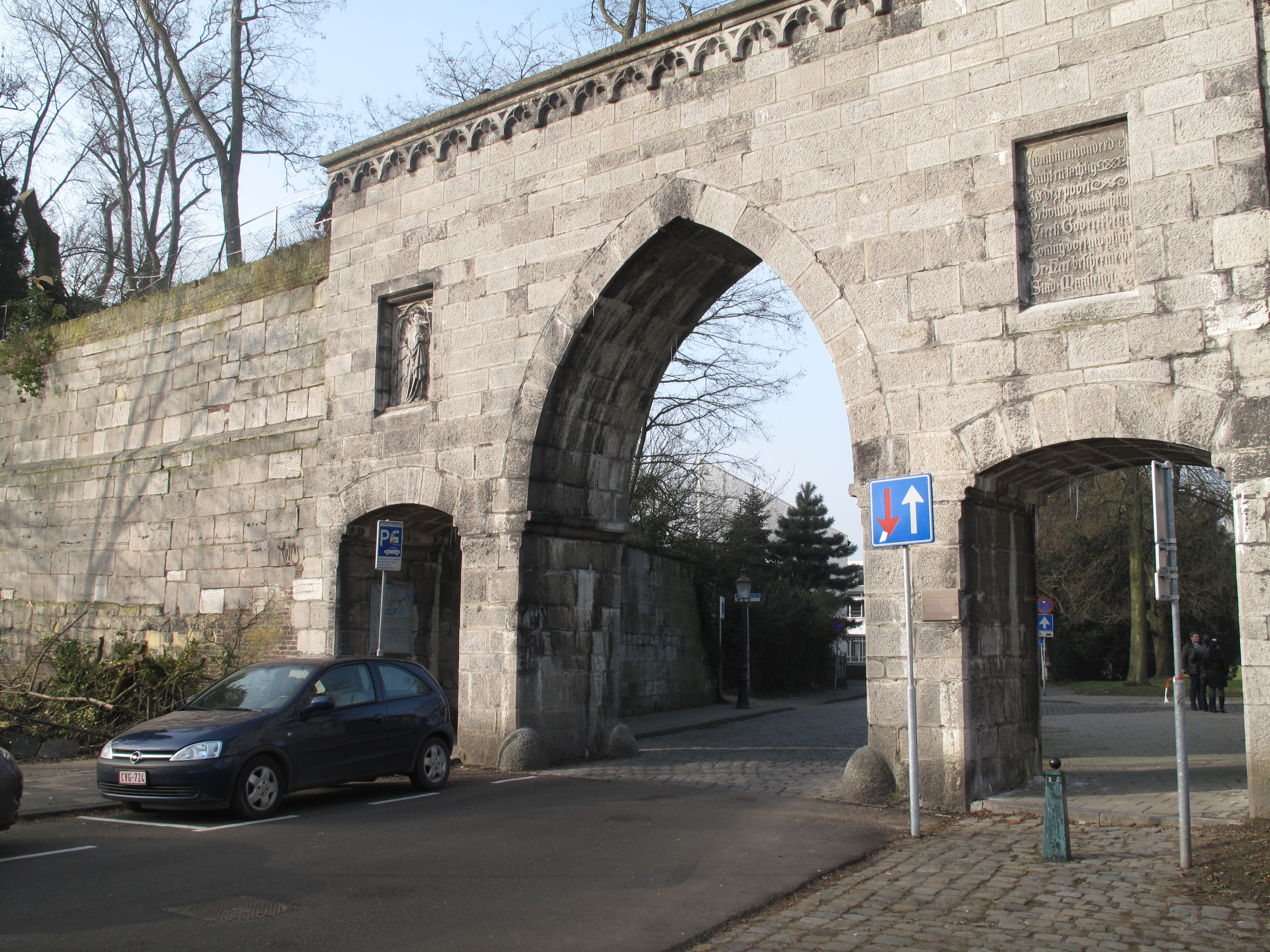 Maastricht, city gate: de Poort Waerachtig